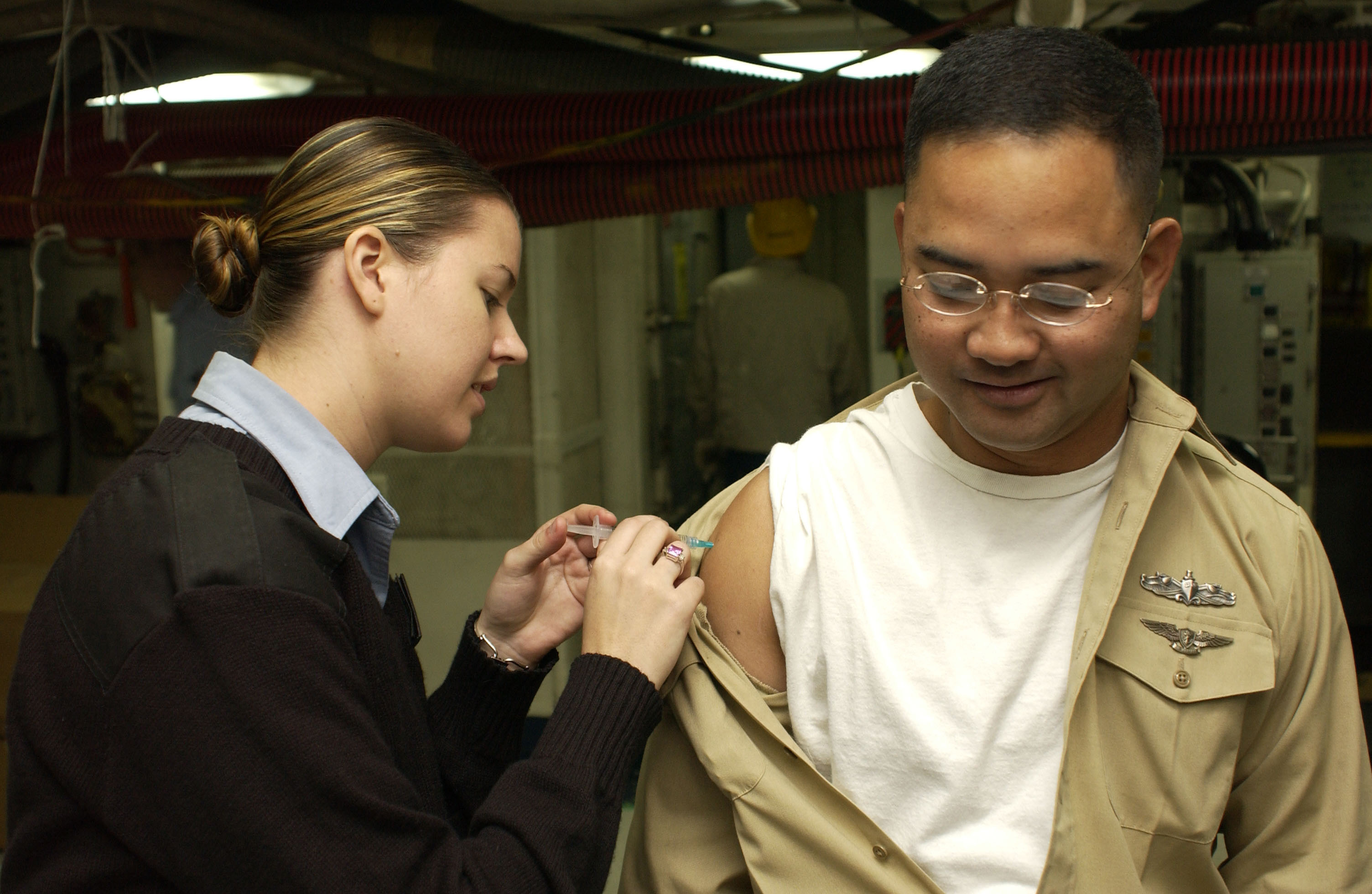 Petty Officer 3rd class Tiffany Long administers the influenza vaccination to Chief Petty Officer Romeo Mortel aboard the USS Kitty Hawk (CV 63) on Oct. 28, 2004. The immunizations are provided to all active-duty personnel to prevent the spread of the flu and maintain service members' health. Long serves as a hospital corpsman and is from San Diego, Calif. Mortel is assigned as a personnel man and is from Batangas, Philippines.